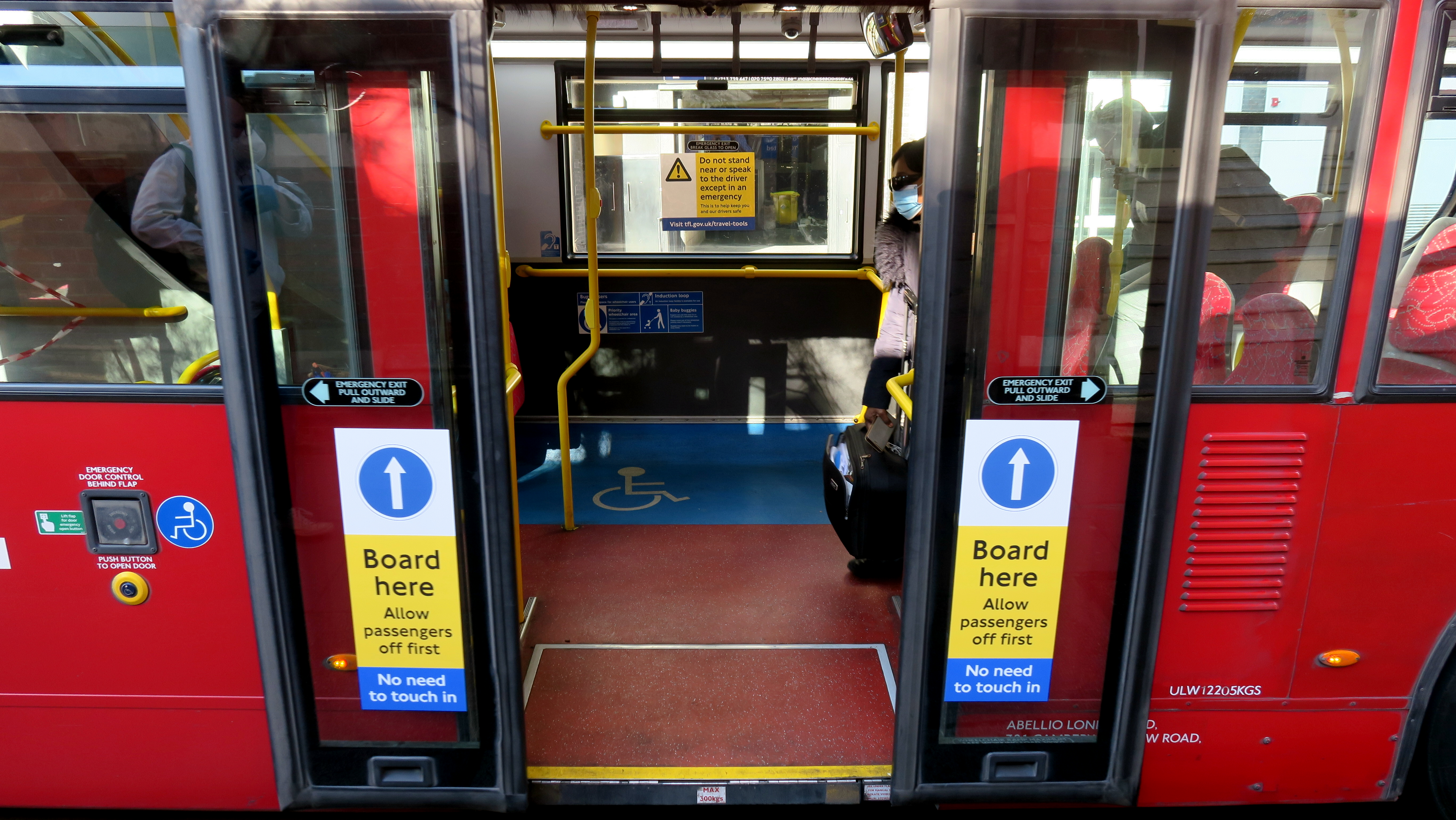 London Bus COVID lock down No Payment needed. To prevent drivers fro becoming infected, fares were suspended. Passengers boarded and left thru the middle door away from driver.